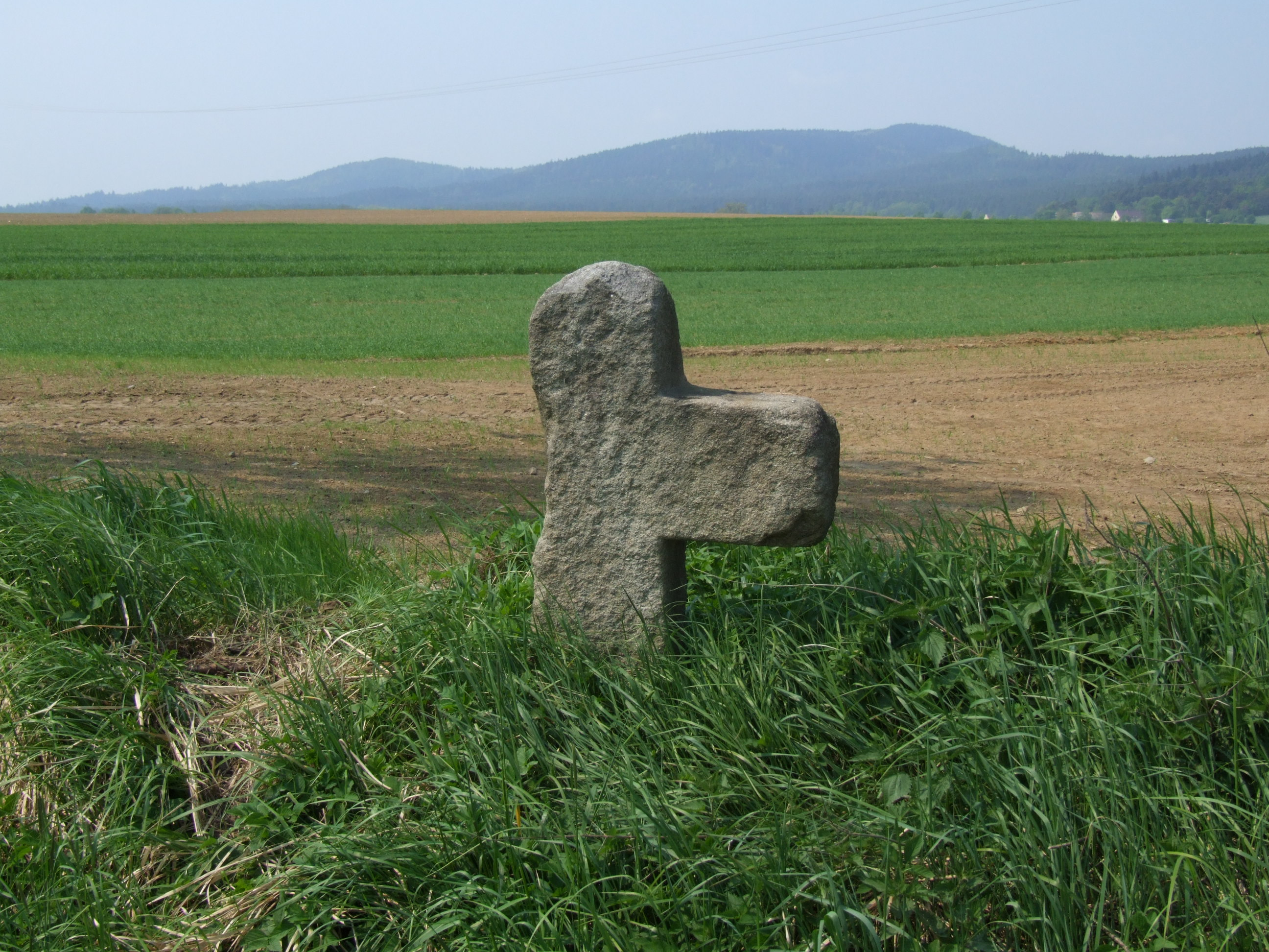 Stone cross near Młynica (Mellendorf), Lower Silesia.